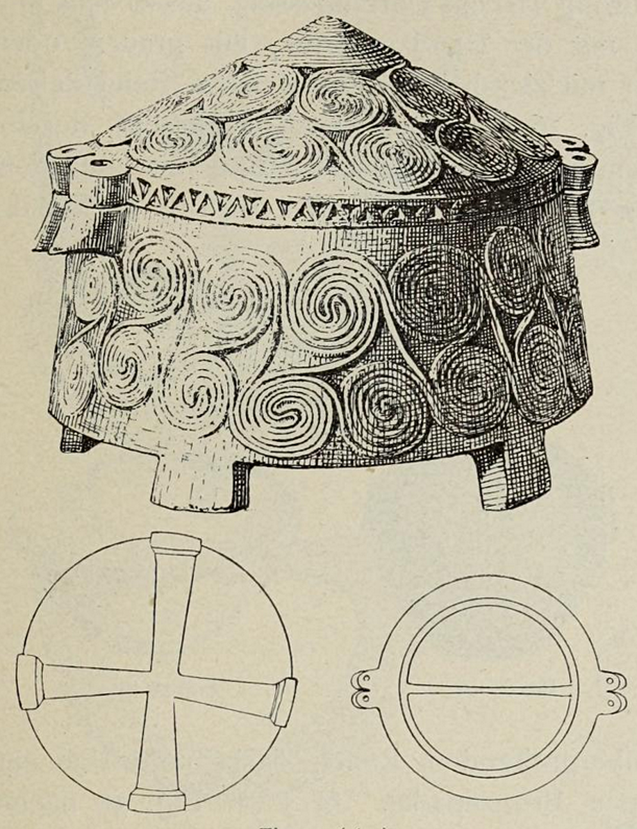 Drawing of a phyxis with spiral decor, found by Ferdinand Dümmler in 1885 on the Greek island of Amorgos. First published by him in 1886.